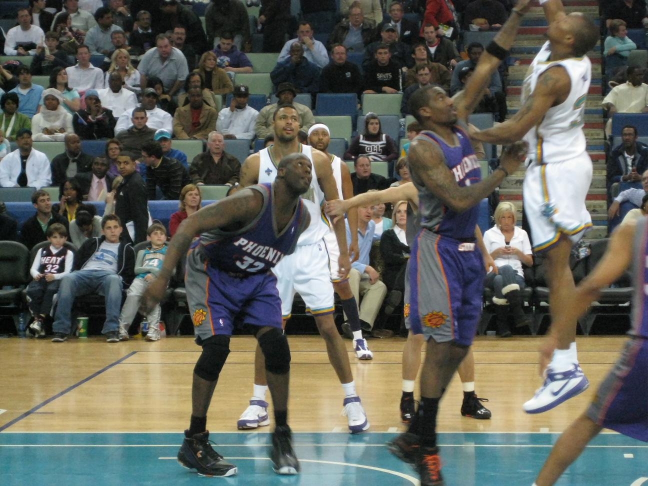 Shaquille O'Neal during the game Phoenix Suns - New Orleans Hornets. Photo by Tim Bekaert.